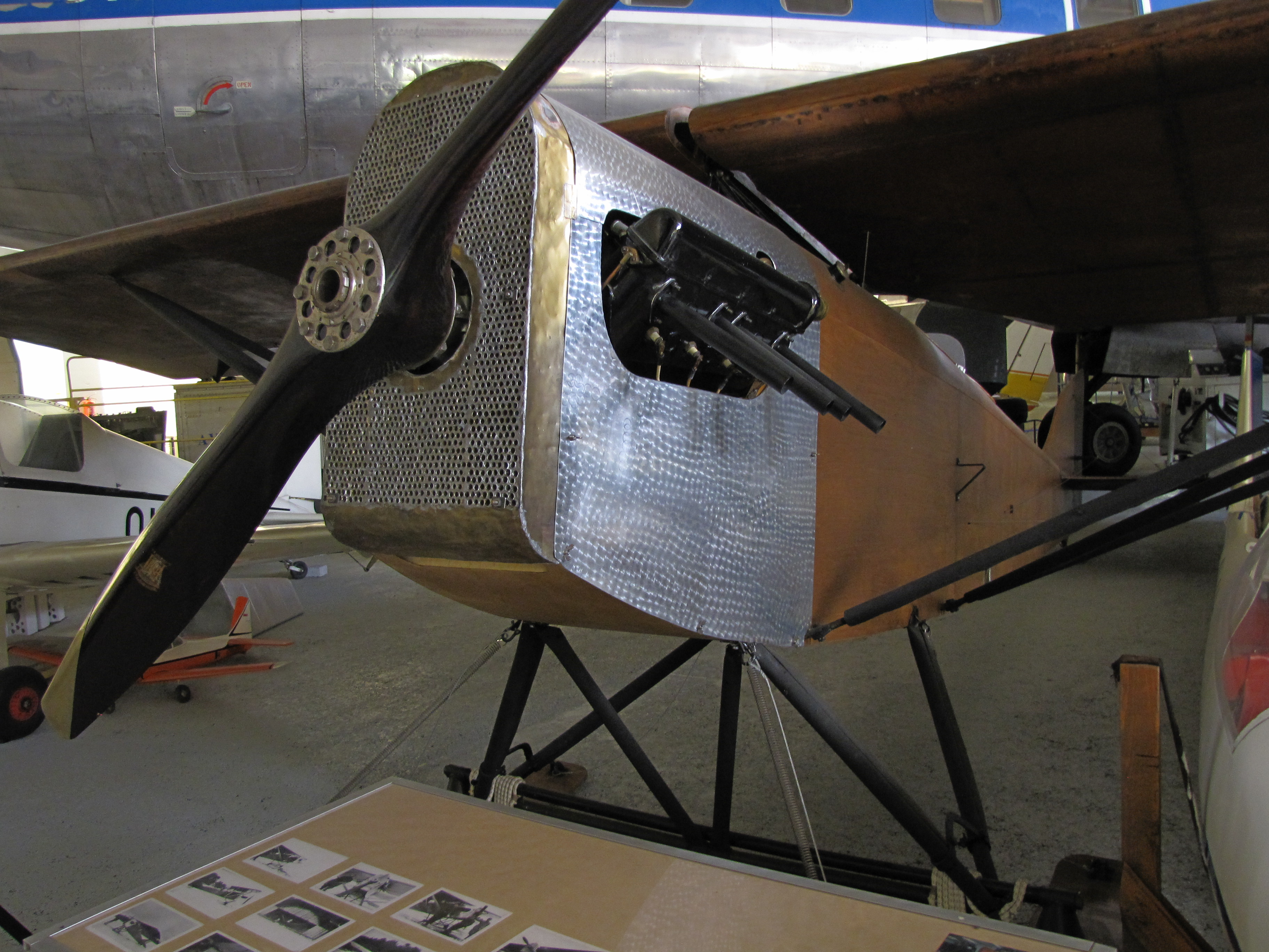 Blomqvist & Nyberg aircraft, second oldest homebuilt powered aircraft in Finland. Built by Attle R. Blomqvist and Emil Nyberg, first flight in 1926, damaged in 1927 and stored afterwards. Photographed in Finnish Aviation Museum.